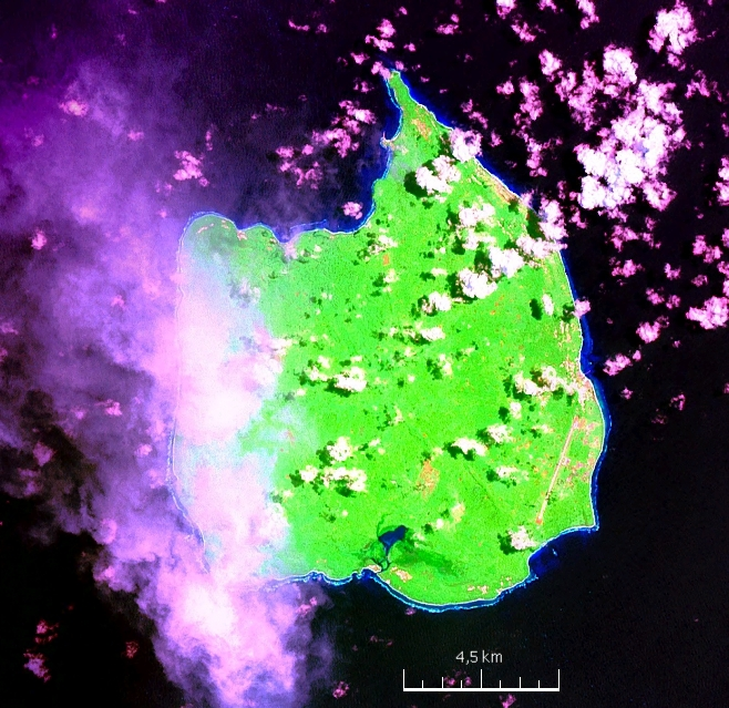 Car Nicobar, northernmost of the Nicobar Islands, India